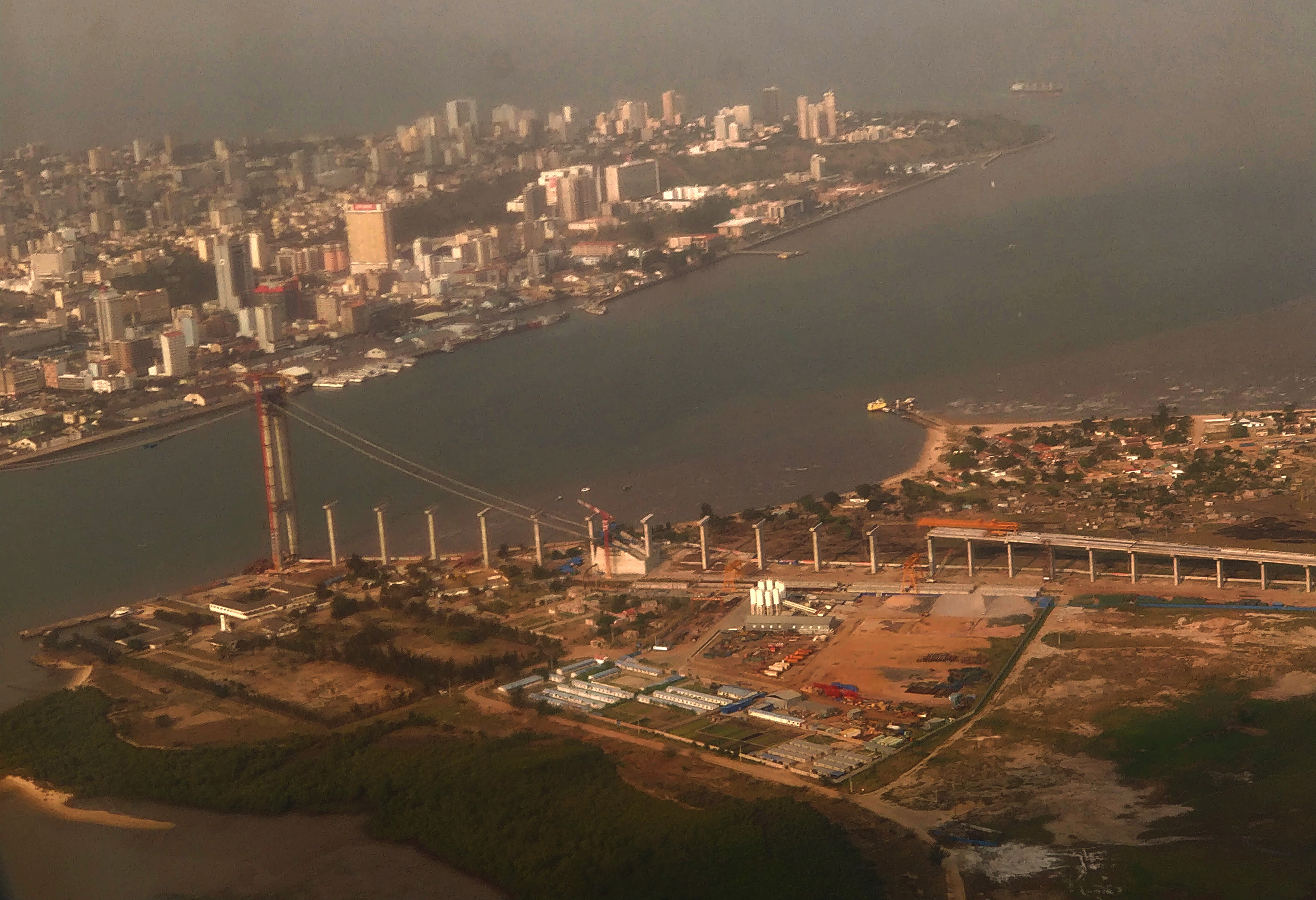 View of Katembe, Maputo, Mozambique